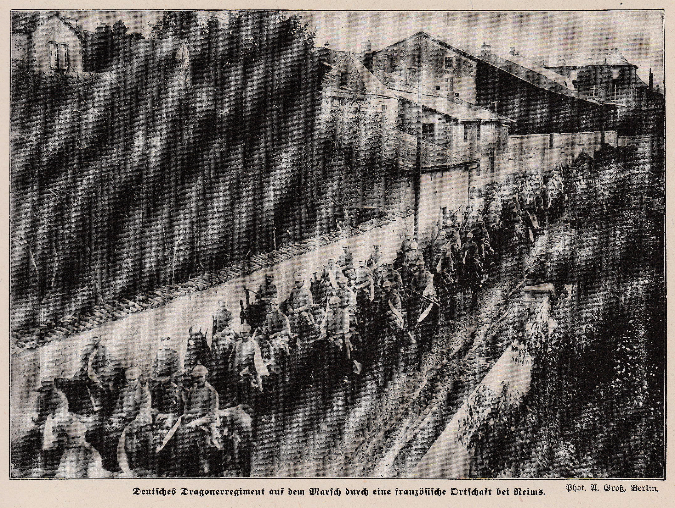 Der Krieg 1914-19 in Wort und Bild, published 1919